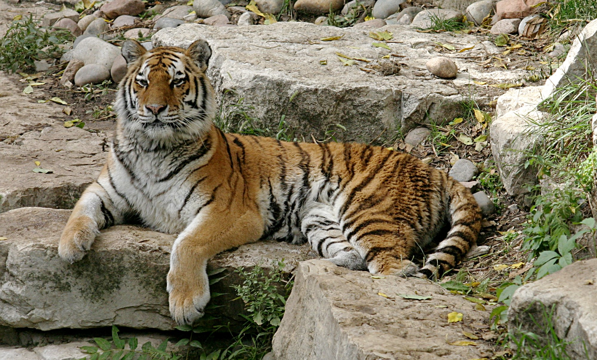 Siberian Tiger at the Henry Doorly Zoo in Omaha, Nebraska.